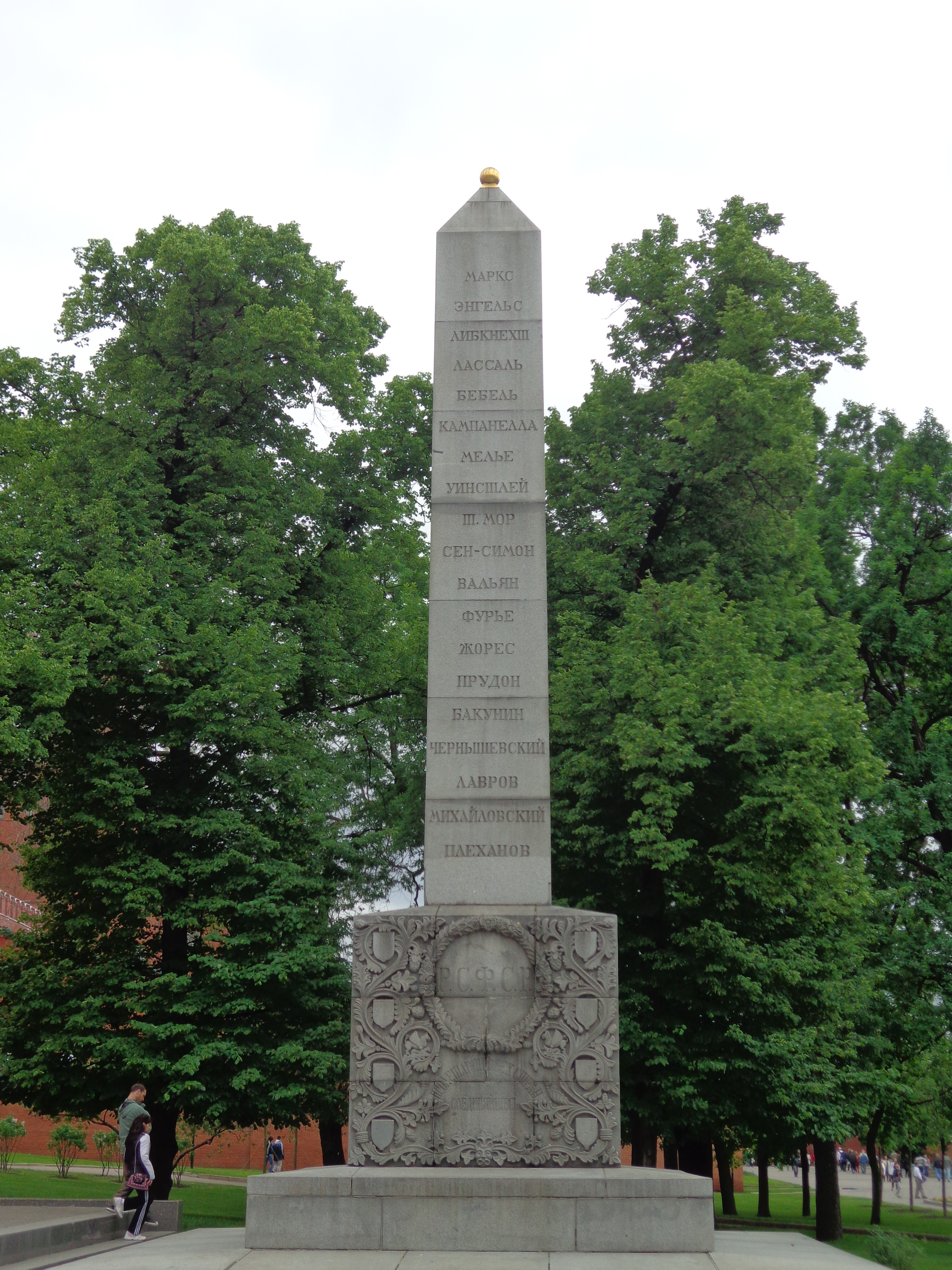 Obelisk in Alexander Garden, Moscow